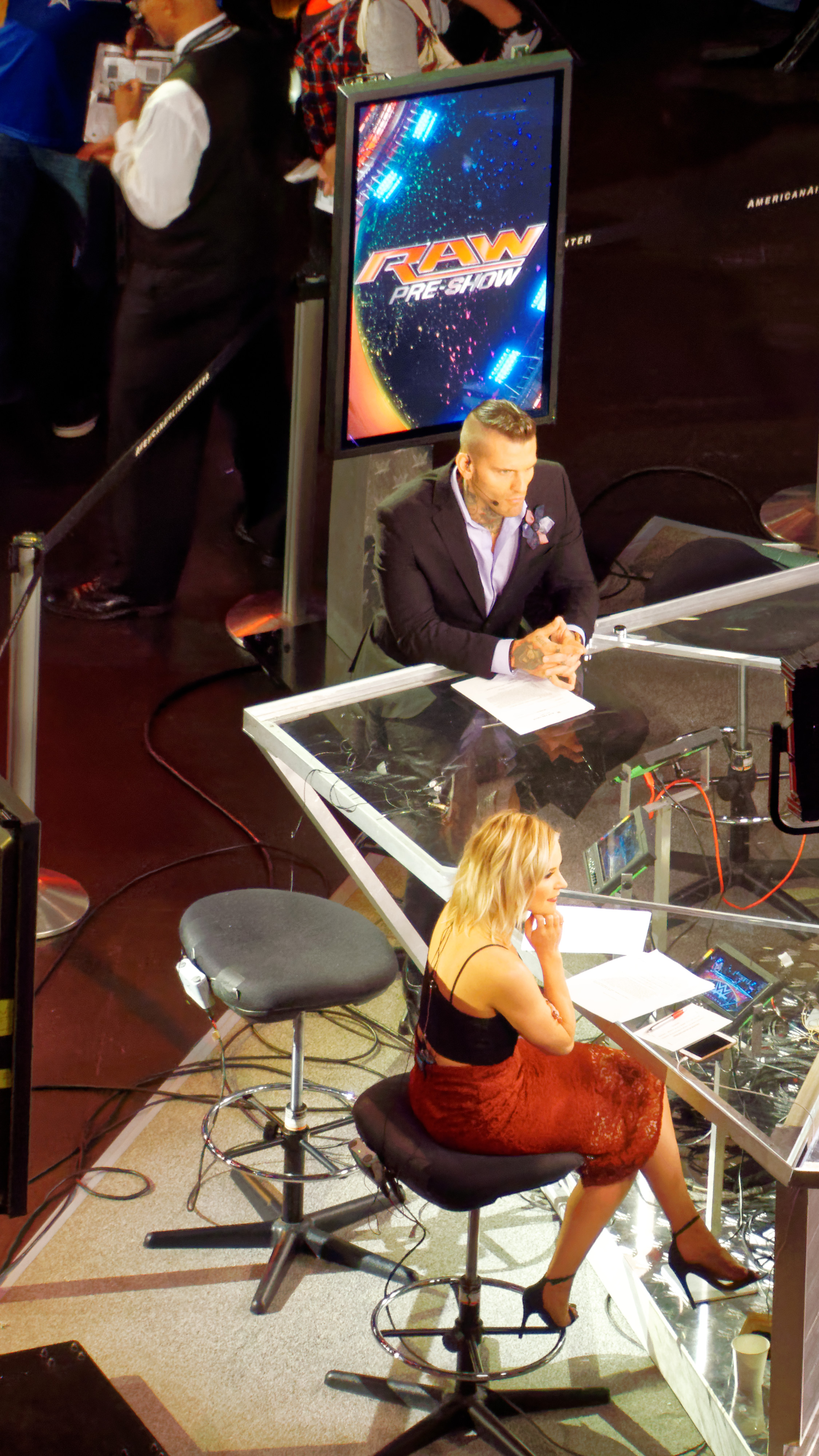 The raw after WrestleMania 32